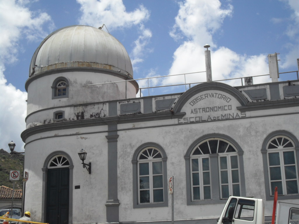 Astronomical observatory